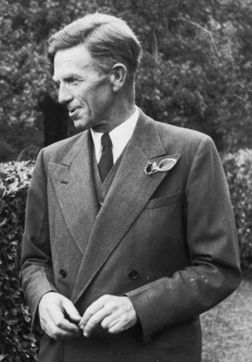 Jack Acland, circa 20 April 1956. Jack Acland was formerly the Member of Parliament for Temuka. Published in the New Zealand Free Lance datd 20 April, 1956.